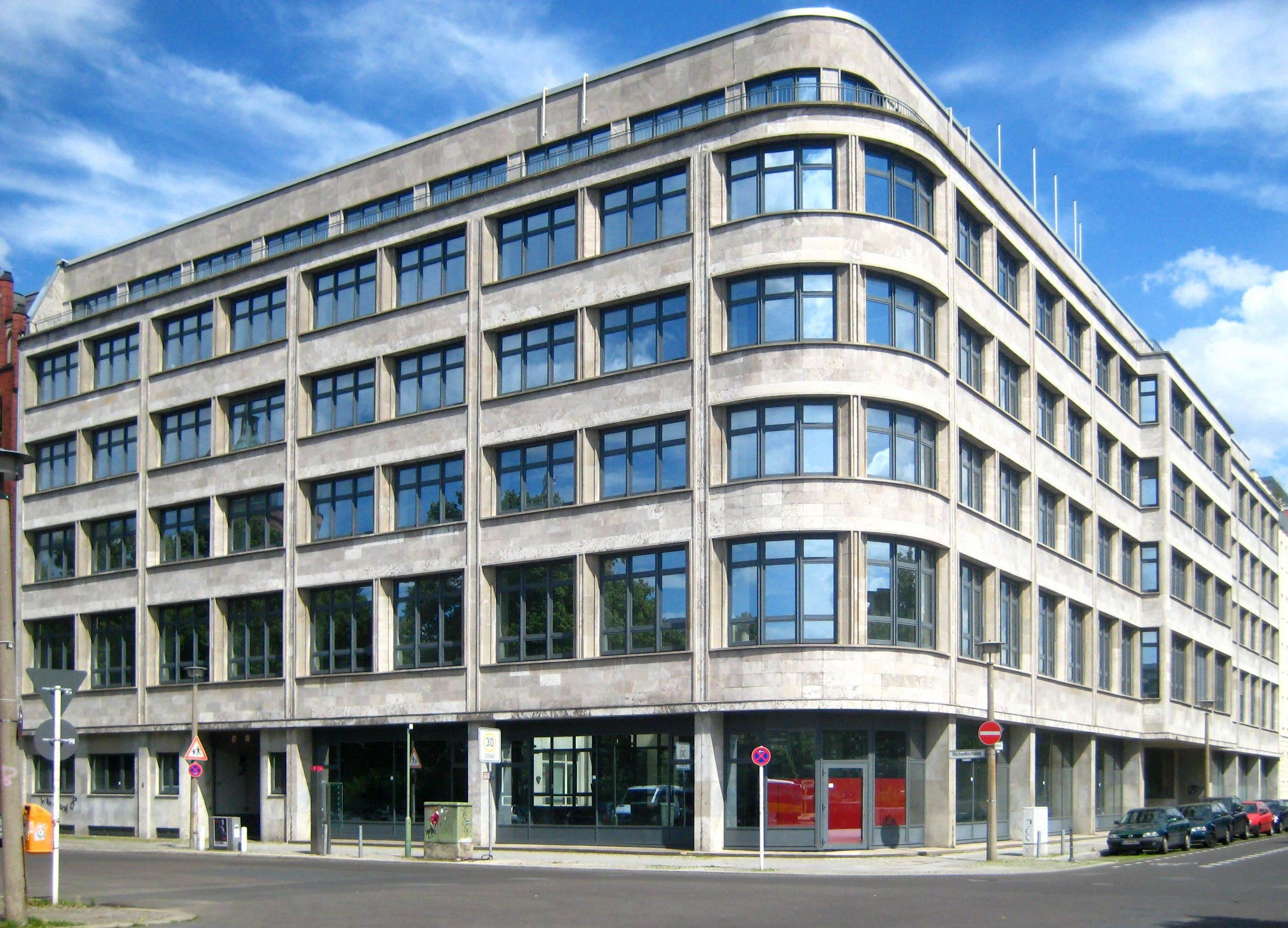 The former office building of the German Traffic Union (the union of tranport workers) on Engeldamm, corner of Michaelkirchplatz in Berlin-Mitte, built 1927 to 1932 by architect Max Taut who used an earlier design by his brother Bruno Taut. The six-story skeleton structure of reinforced concrete was one of several union buildings in Berlin Max Taut constructed in the modern architectural style. After the Nazis expropriated the General Federation of German Trade Unions in 1933, the building was used by the German Labor Front (Deutsche Arbeitsfront) for the Gau Office of its "Kraft durch Freude" ("Strength through Joy") programme. Heavily damaged in WWII, the building was reconstructed from 1949 to 1951 and the originally dark wall cladding were replaced with light limestone panels. The house was then used by the GDR Free German Trade Union (FDGB) and later by serveral of its affiliate unions. After German reunification, the transport union ÖTV had its seat here. The building is landmarked.